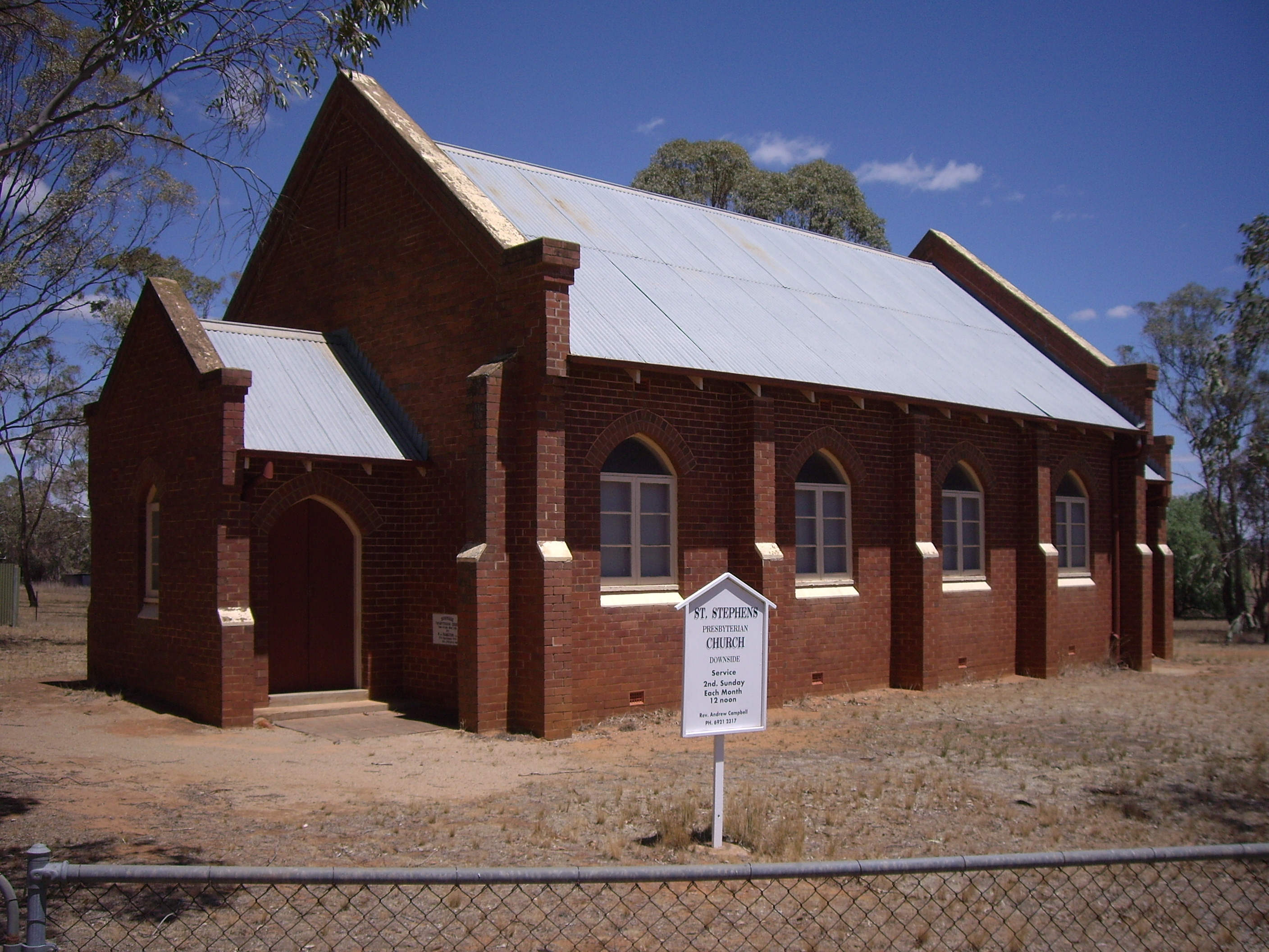 St Stephen's Church Downside